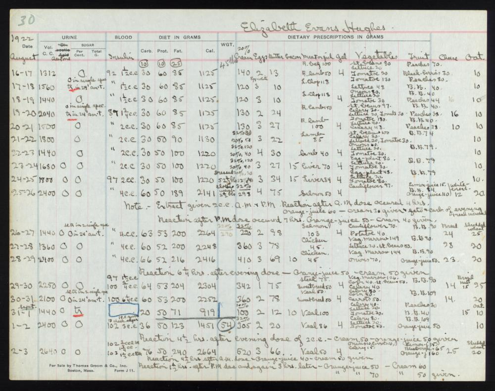 Title: Chart for Elizabeth Hughes Author: Hughes, Elizabeth Evans Place/Date: [Toronto], August 16 1922 Physical Description: 1 chart 28 x 22 cm. Scope and Content: Item is a chart used to track the blood, urine, diet in grams, and dietary prescriptions in grams. It is 1 page and filled out by hand. Chart shows that by Sept. 3rd, Hughes gained 9 pounds from the time of her first insulin injection on Aug. 17th. Collection: Banting Location: MS. COLL. 76 (Banting), Box 8A, Folder 25B Source of Title: Title based on content of chart. General Note: The entries are in Elizabeth Hughes' own hand. This is a sample of the forms she used to chart her medical condition since she was first diagnosed with diabetes. Rights Info: No known restrictions on access Repository: Thomas Fisher Rare Book Library, University of Toronto, Toronto, Ontario Canada, M5S 1A5, Collection: Part of the Discovery and Early Development of Insulin collection